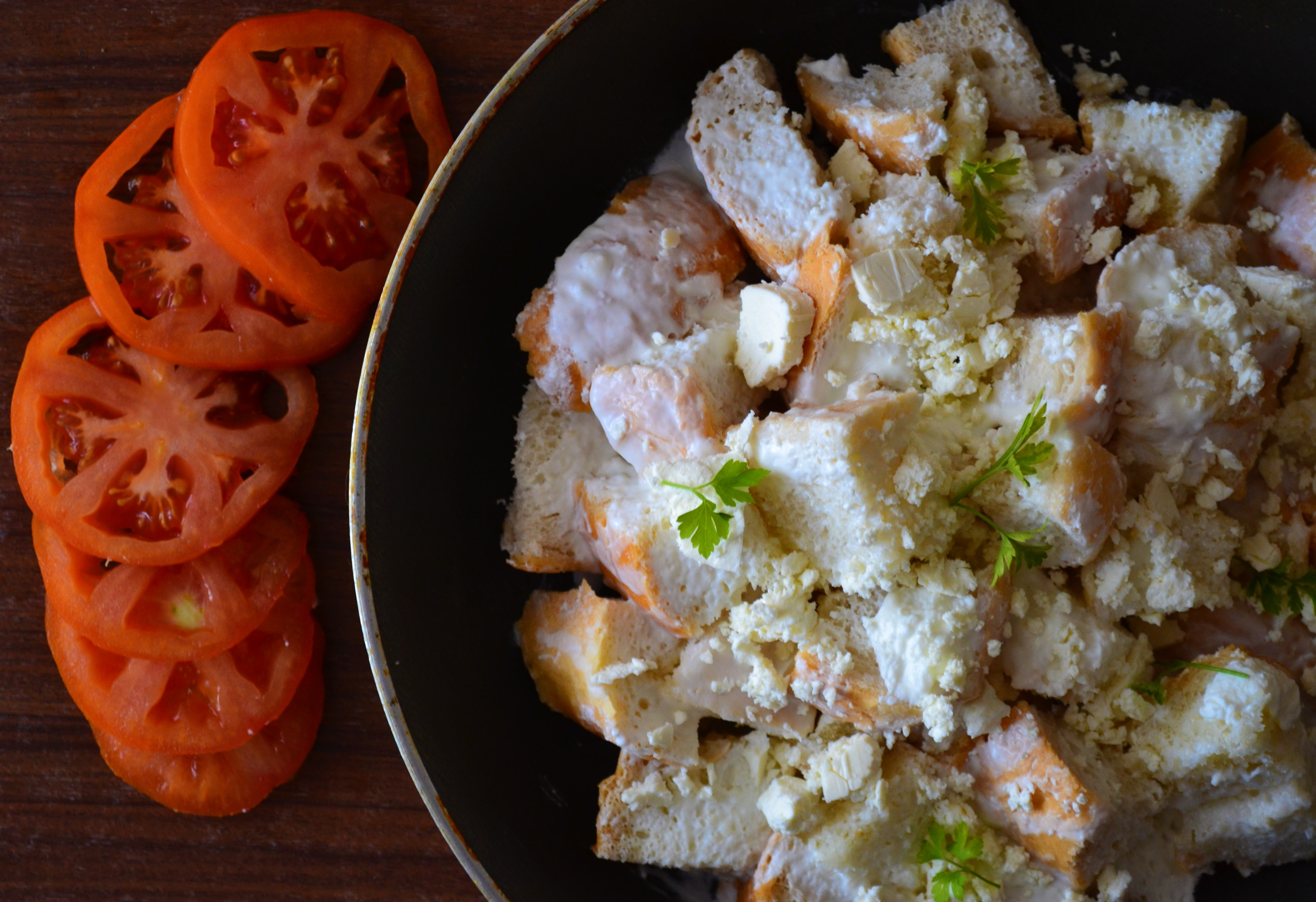 Popara - meal made from left over from fresh bread, best if the bread is 3 days old. The bread is cut into cubes and then mixed with boiling water. It takes few minutes until the bread is moist. At the end, warm spoon of kaymak or pork lard is poured over the popara, and spread cheese over the top.